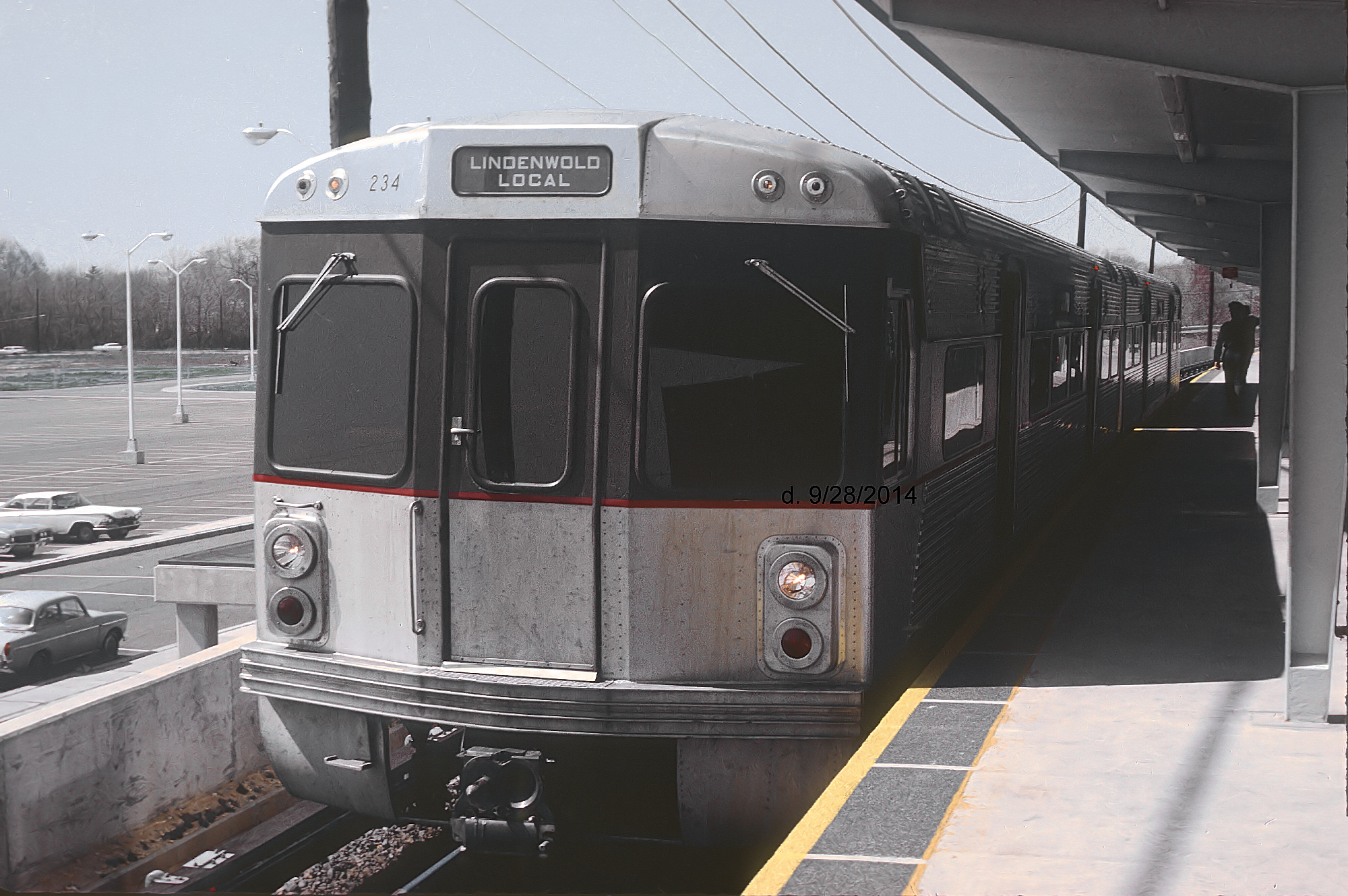 A PATCO train at the newly opened Lindenwold station in April 1969